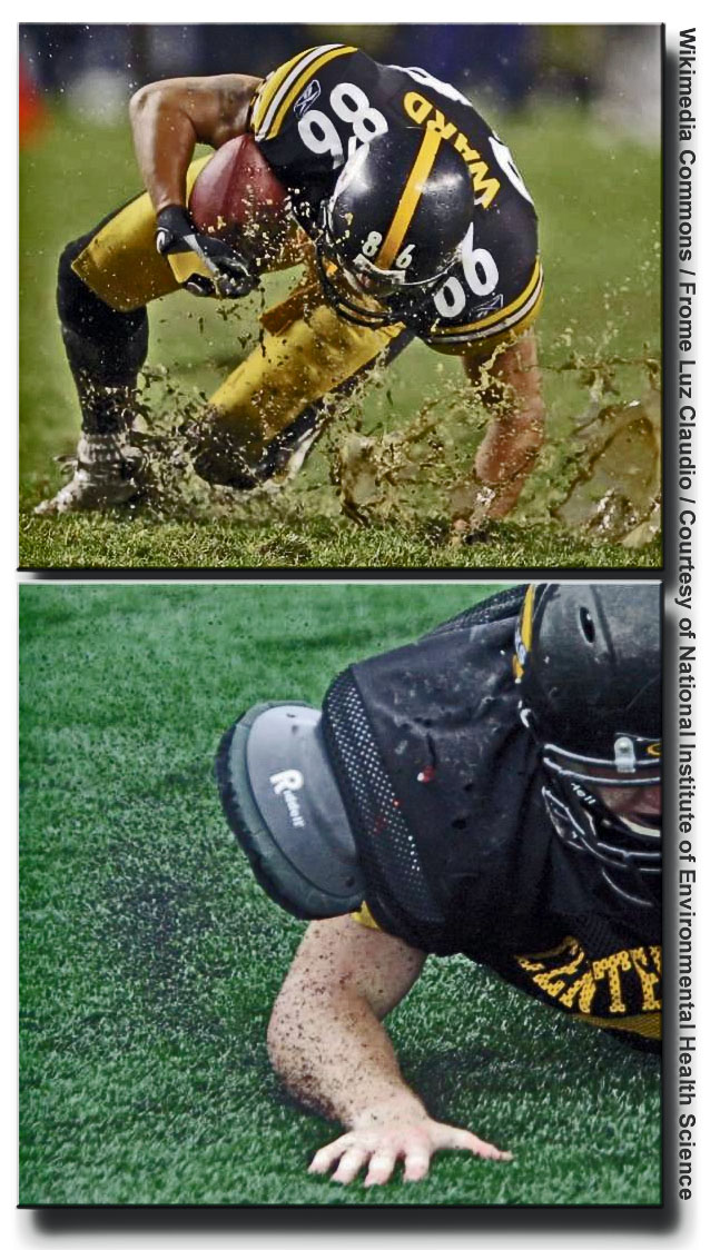 High-impact sports take a toll on natural grass fields (above), but concerns about the unknown health effects of crumb rubber infill (seen below spraying upon impact) and other environmental health concerns keep some stakeholders from wholeheartedly buying in to the benefits of synthetic turf.